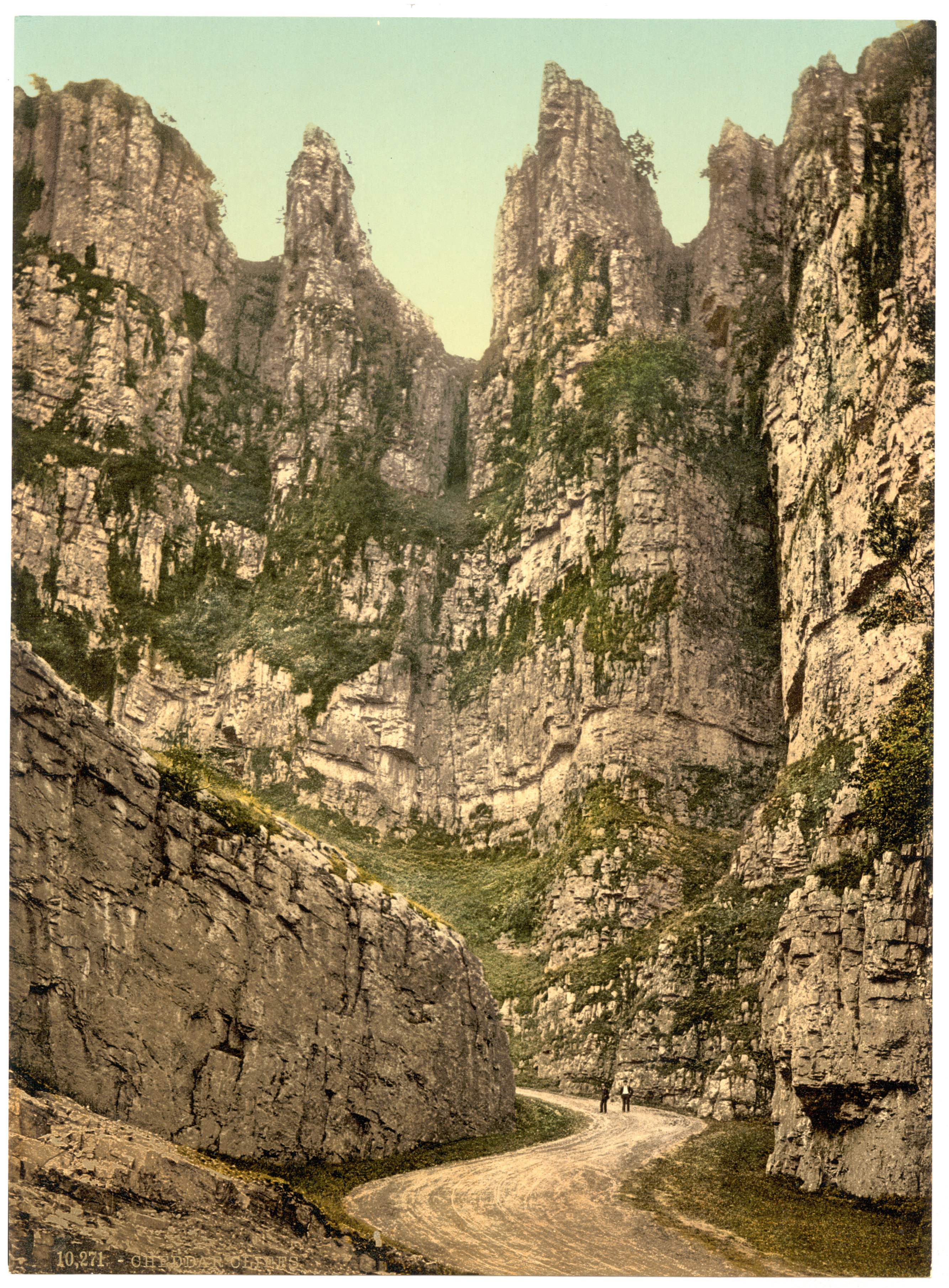 Photochrom of Cheddar.